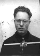 Bernard Waldman Los Alamos wartime security badge.